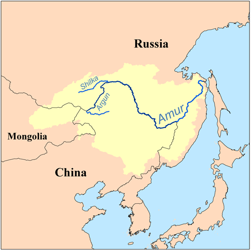 This is a map of the Amur River drainage basin.